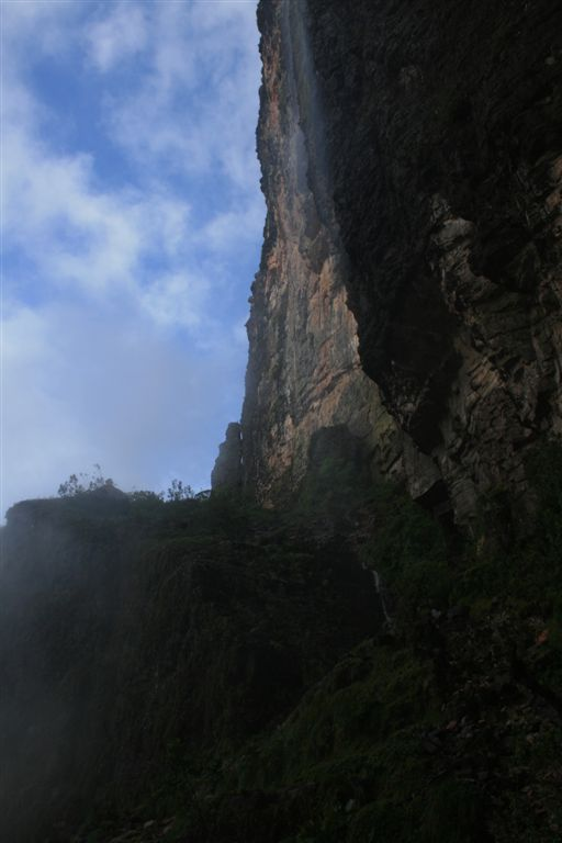 La Rampa, main route for mount Roraima, Venezuela